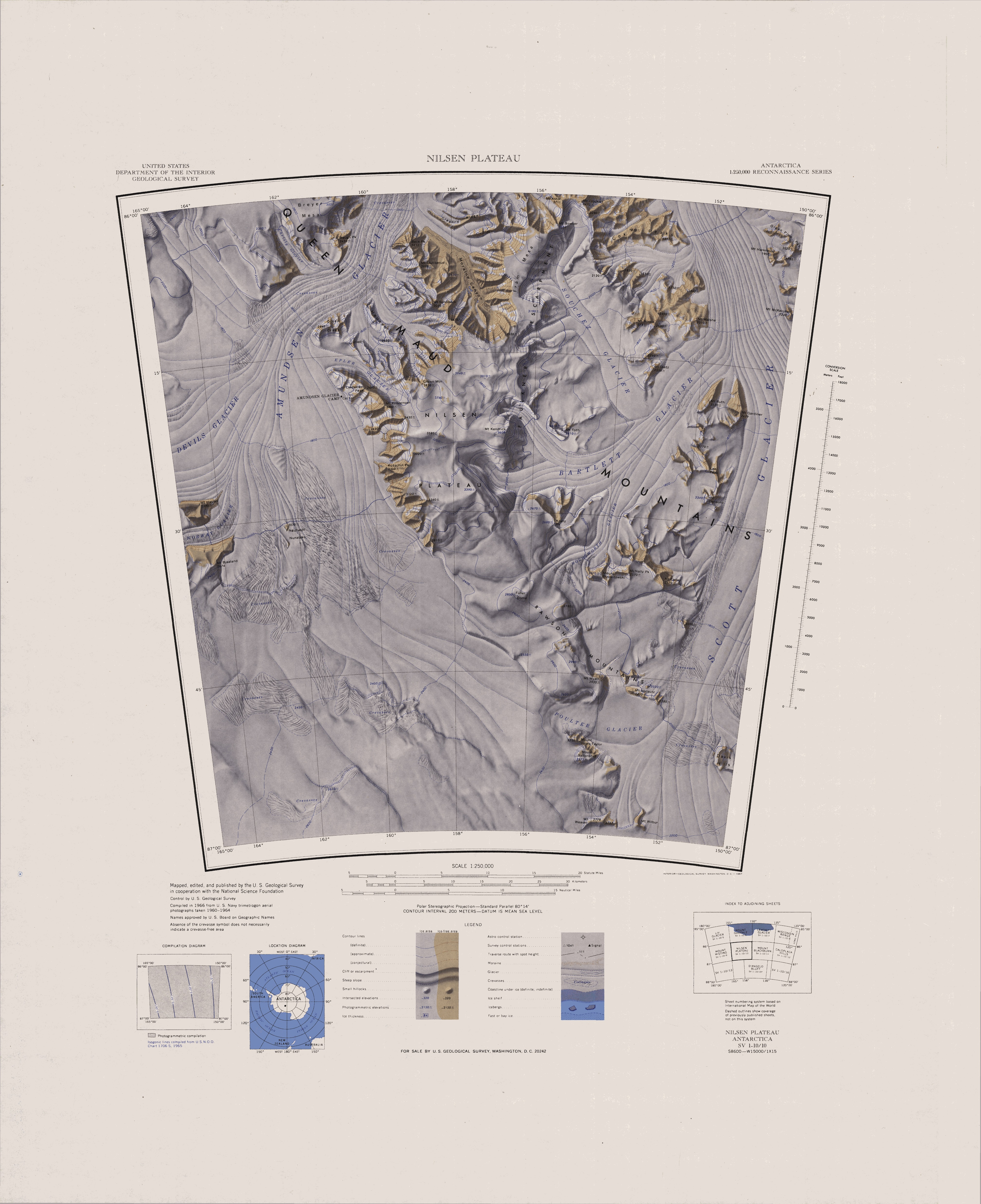 1:250,000-scale topographic reconnaissance map of the Nilsen Plateau area from 165°-150°W to 86°-87°S in Antarctica. Mapped, edited and published by the U.S. Geological Survey in cooperation with the National Science Foundation.